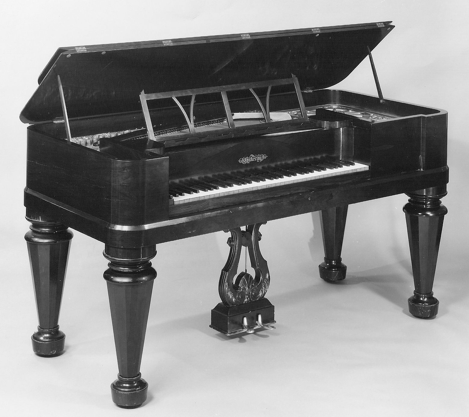 American; Square Piano; Chordophone-Zither-struck-piano